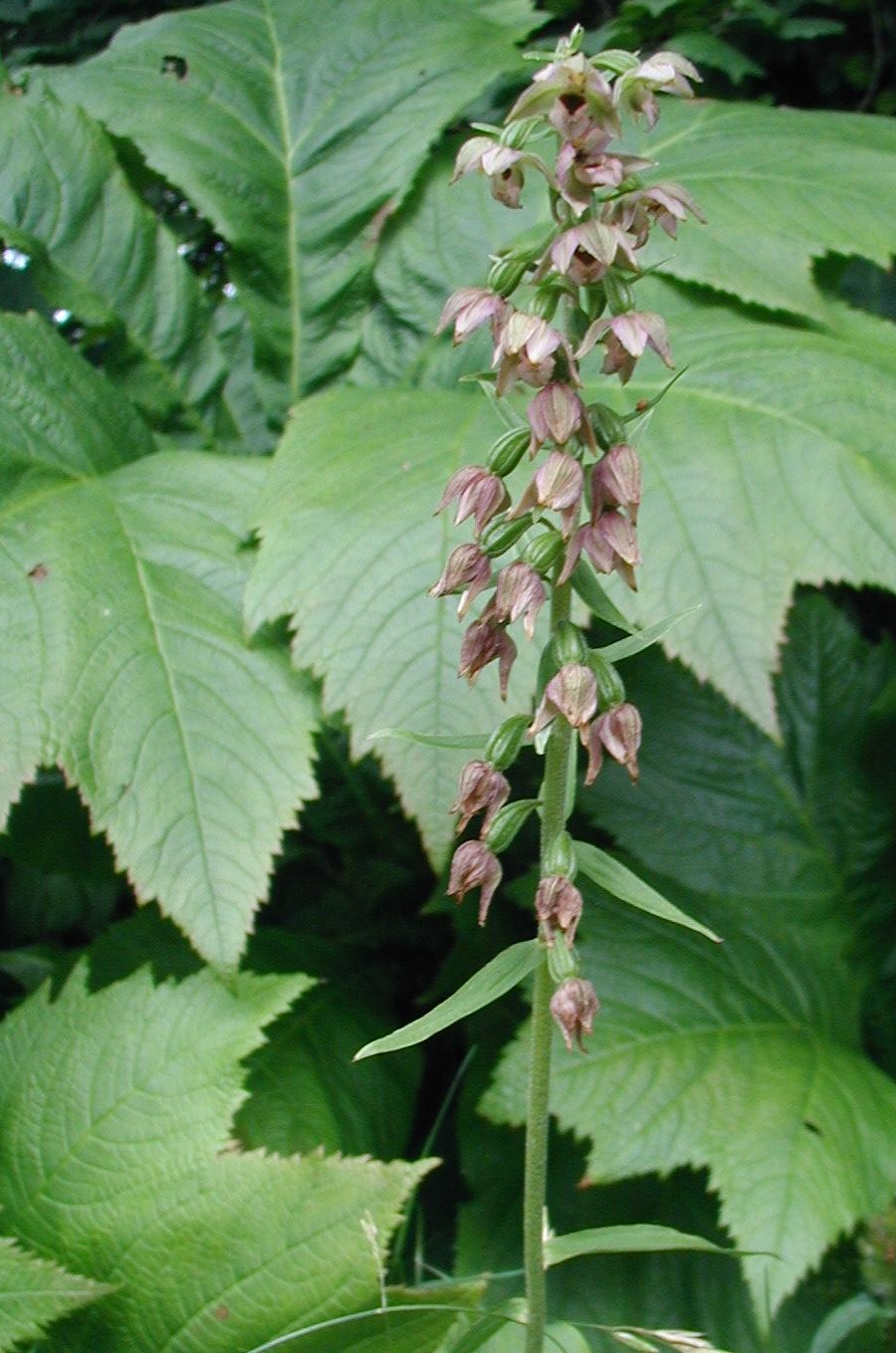 Epipactis helleborine: Flowers